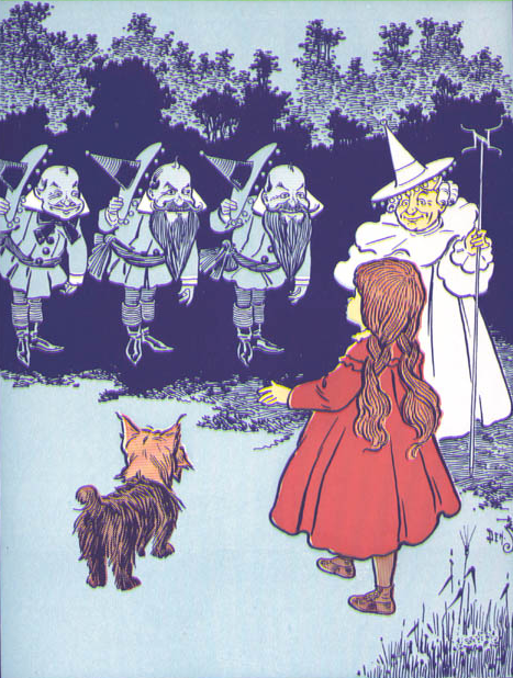 Chapter 2. Dorothy talks to the Witch of the North. The Wonderful Wizard of Oz (1900) Baum, L. Frank Illustrator W. W. Denslow Copyright no longer valid. Text and images are public domain. Source (cropped and resized)